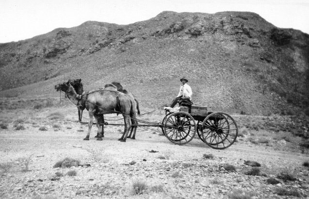 Camels in Coolgardie, Western Australia.